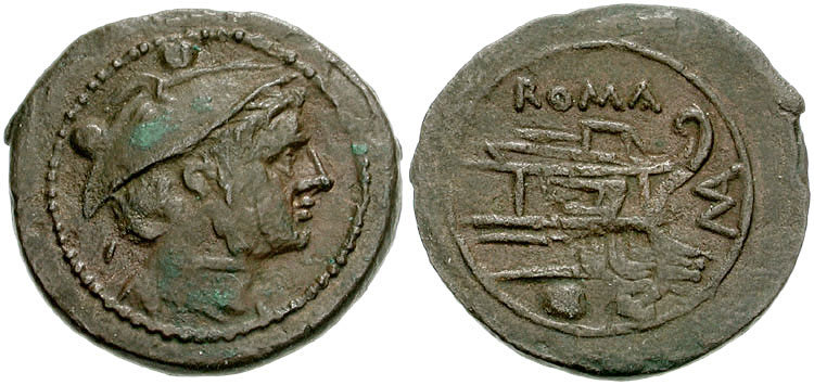 Roman Republic, Anonymous (maybe Publius Manlius Vulso). Circa 210 BC. Æ Sextans (20mm, 4.02 g). Sardinia mint. Head of Mercury right wearing winged petasos; •• above Prow of galley right; ROMA above, MA monogram before, •• below.